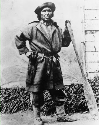 Image of Gabriel Acquin, c. 1866.